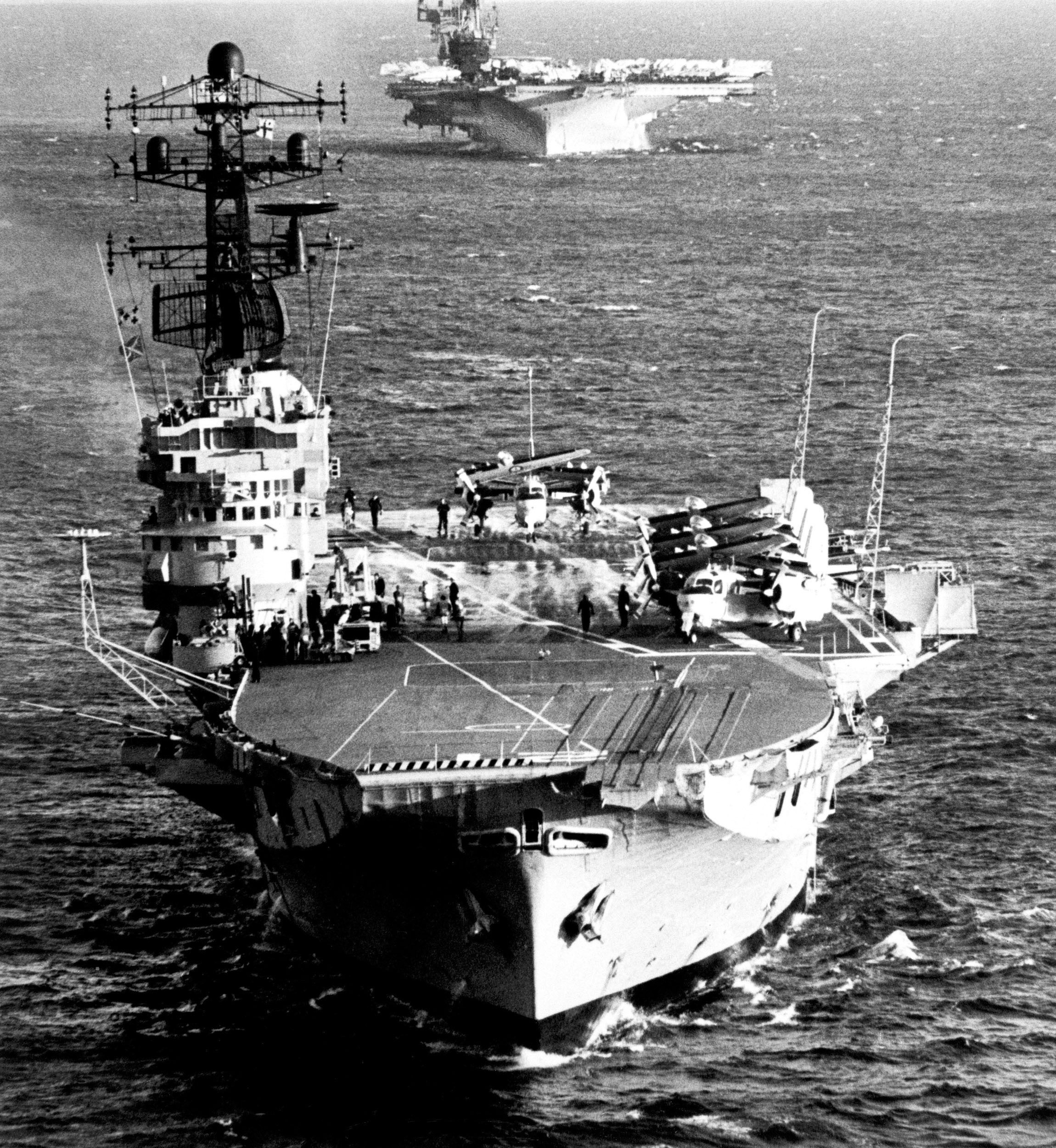 The Royal Australian Navy aircraft carrier HMAS Melbourne (R21) (foreground) and the U.S. Navy aircraft carrier USS Midway (CV-41) underway on 16 May 1981. Midway, with assigned Carrier Air Wing 5 (CVW-5), was on a deployment to the Western Pacific and the Indian Ocean from 23 February to 5 June 1981.